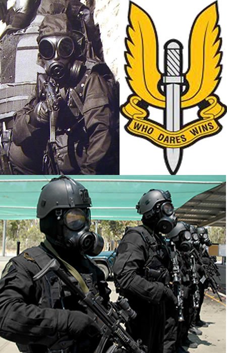 British Special Forces ' S.A.S '